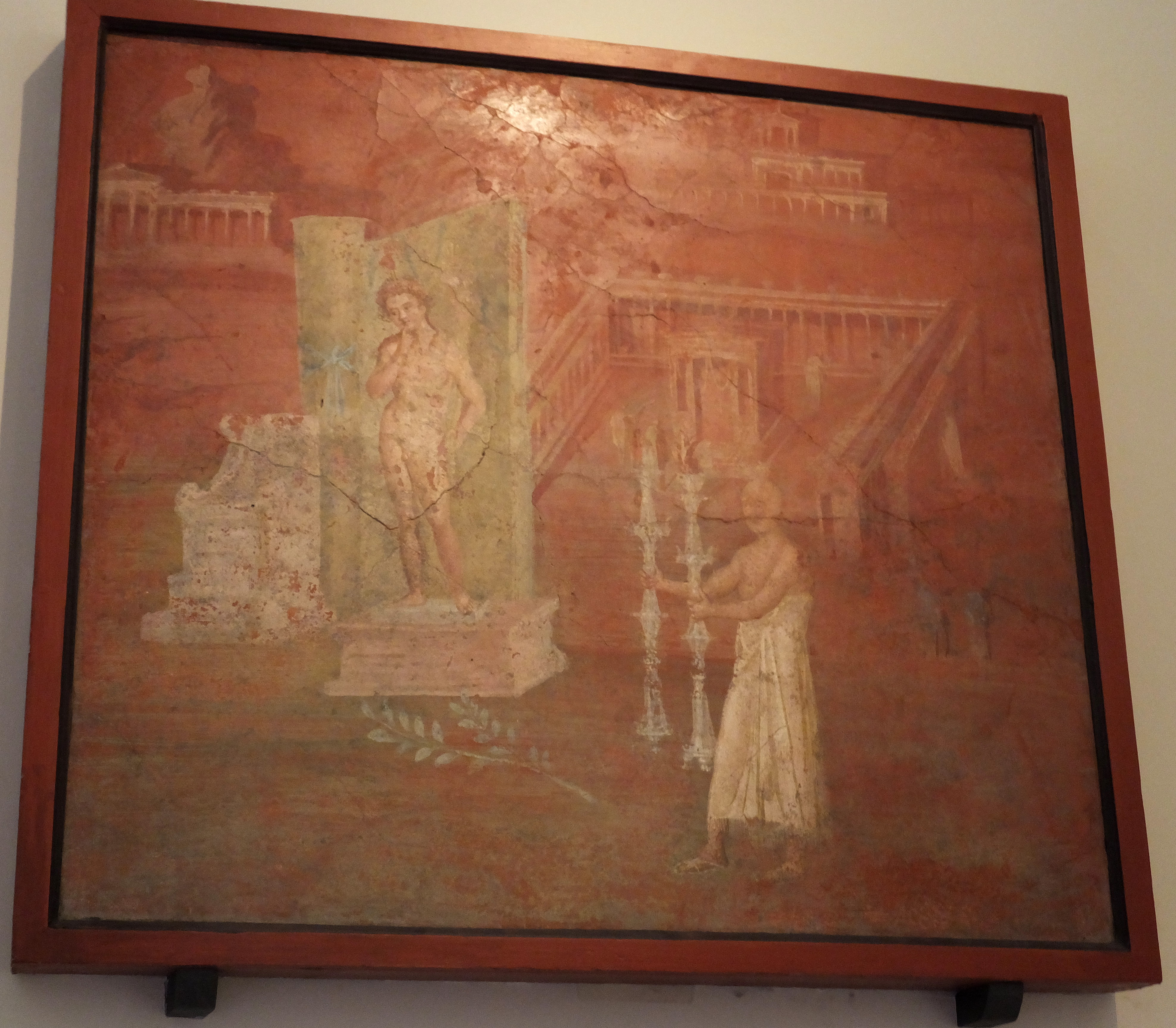 A fresco taken from the Temple of Isis at Pompeii. A priest of Isis carrying candelabra approaches a statue of Harpocrates, a syncretized version of Horus, the son of Isis.